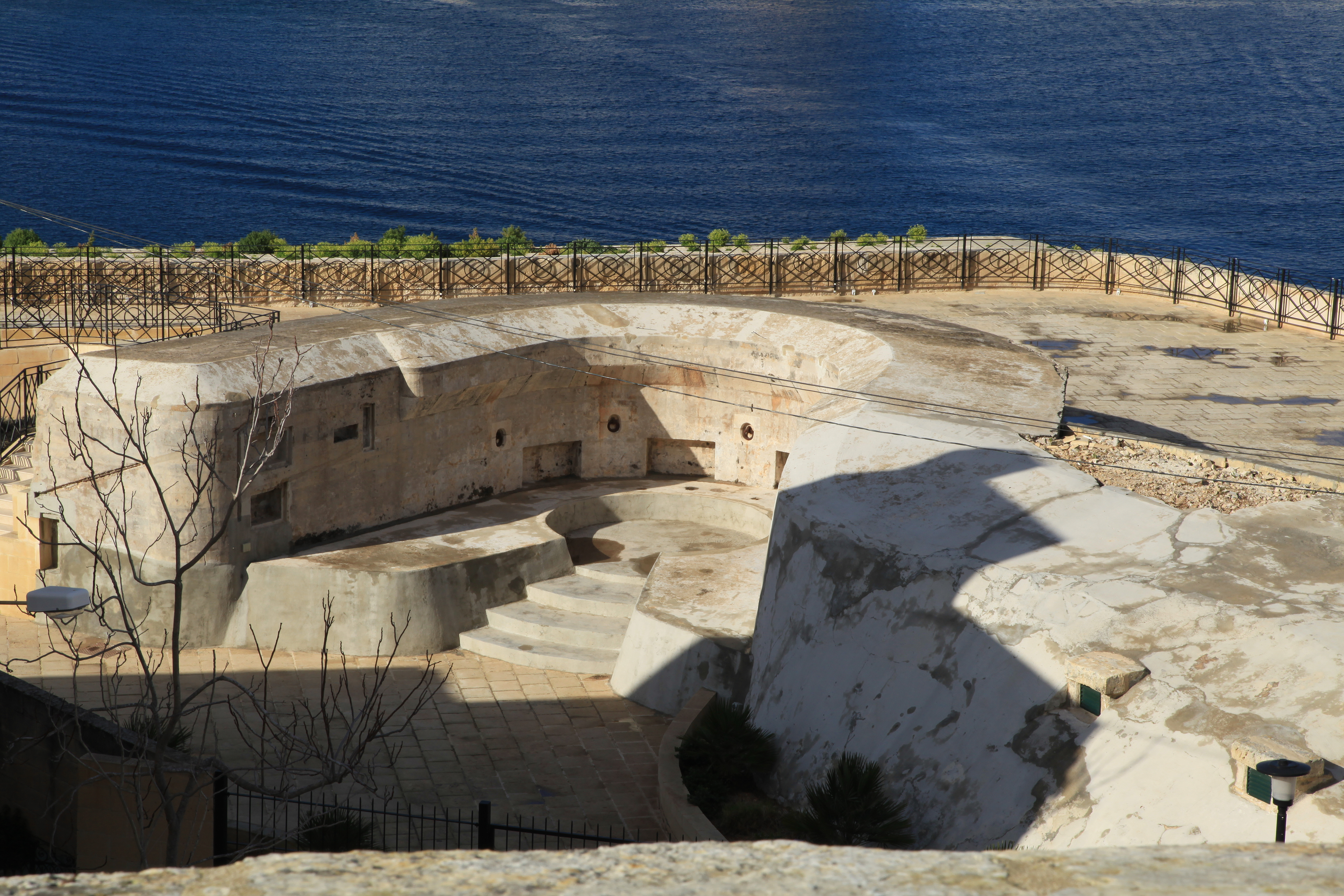 St. Andrew's Bastion at Triq Sant Andrija in Valletta, Malta